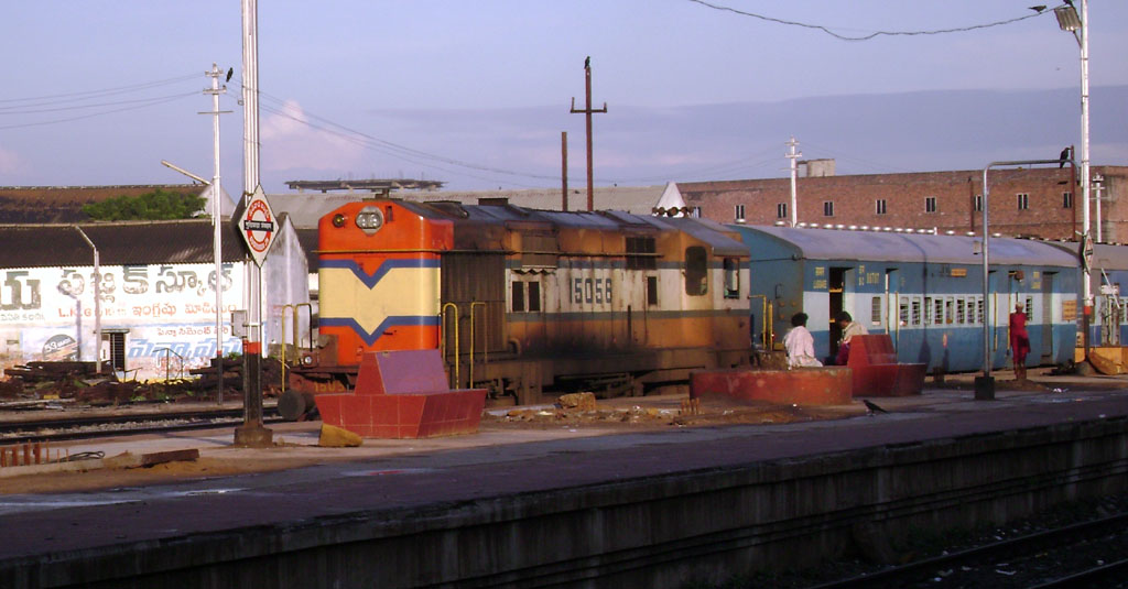 WDP-1 of BZA shed at Gudivada JN with a Passenger train